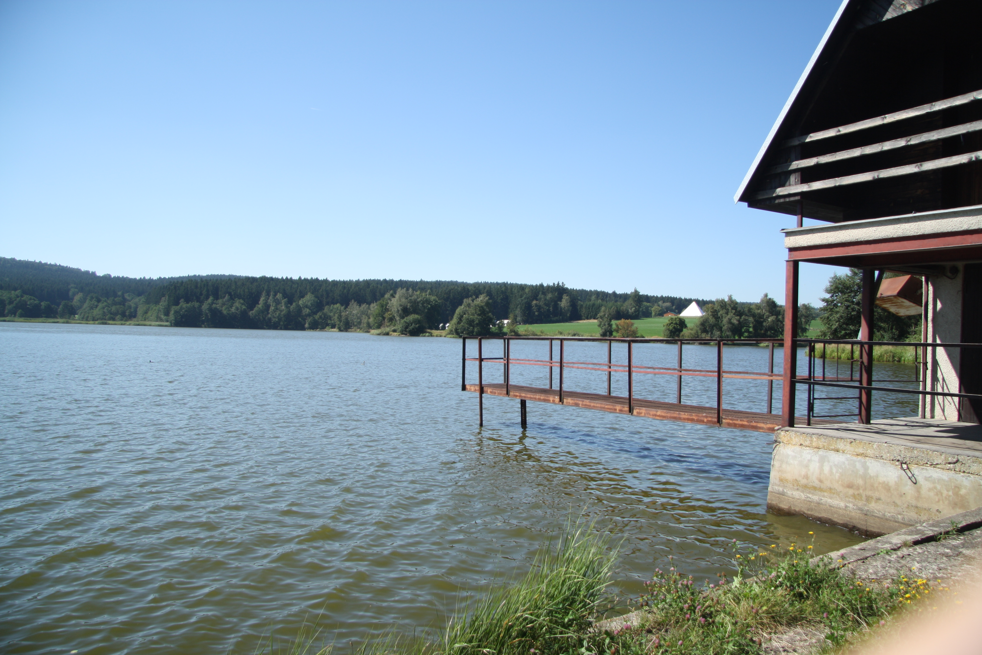 Overview of Bohdalovský pond with pier near Bohdalov, Žďár nad Sázavou District.